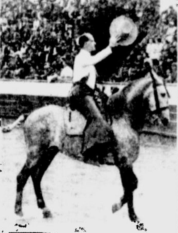 Portuguese noble, sportman and military officer Rodrigo de Castro Pereira